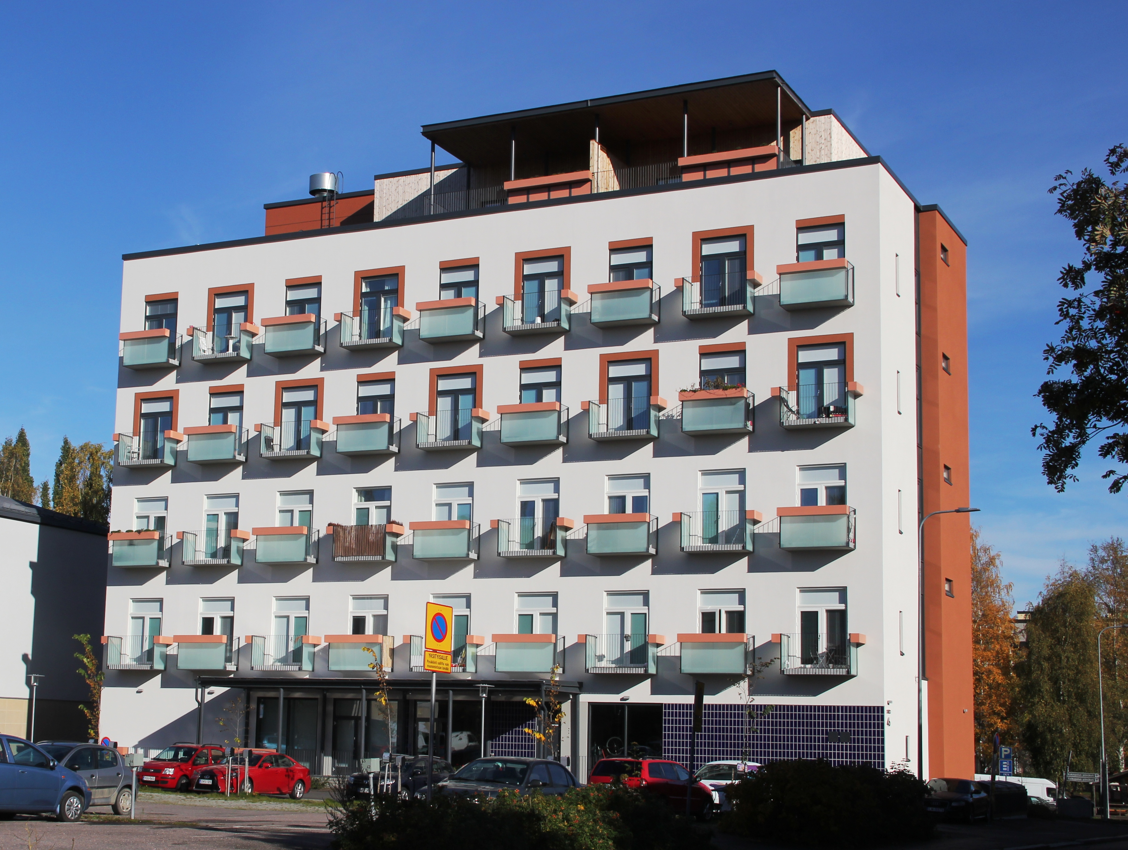 StudioKoti by Sato, studio apartment house, on Raikukuja, Martinlaakso, Vantaa Finland